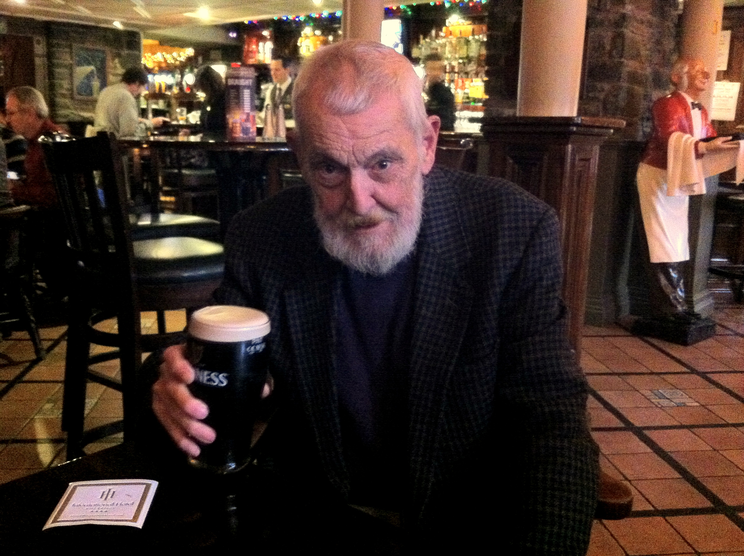 Doc Shiels imbibing at the local pub in Killarney, Ireland, Nov. 2015